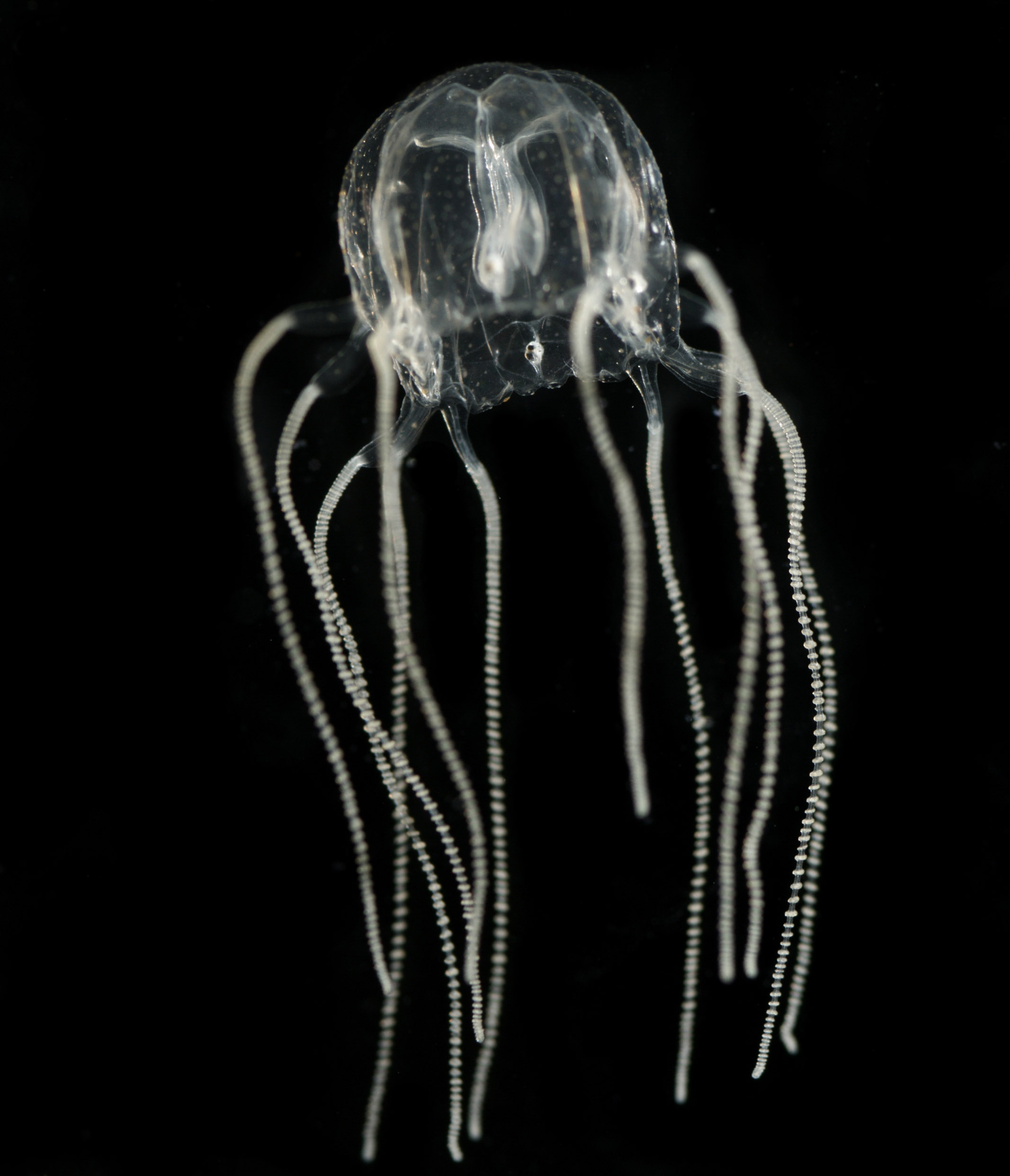 Tripedalia cystophora, a box jellyfish from the Caribbean Sea.